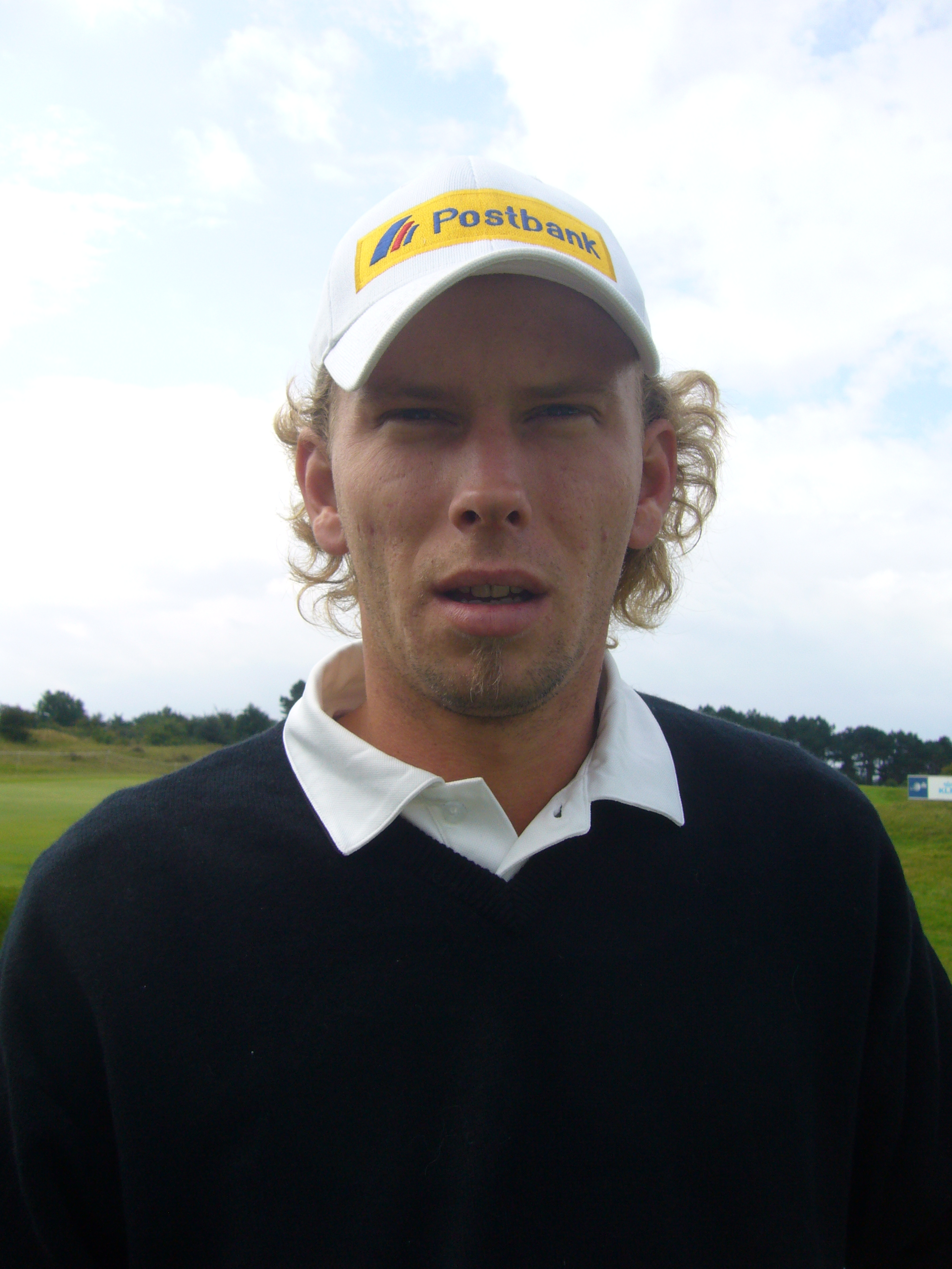 Marcel Siem, German golfprofessional